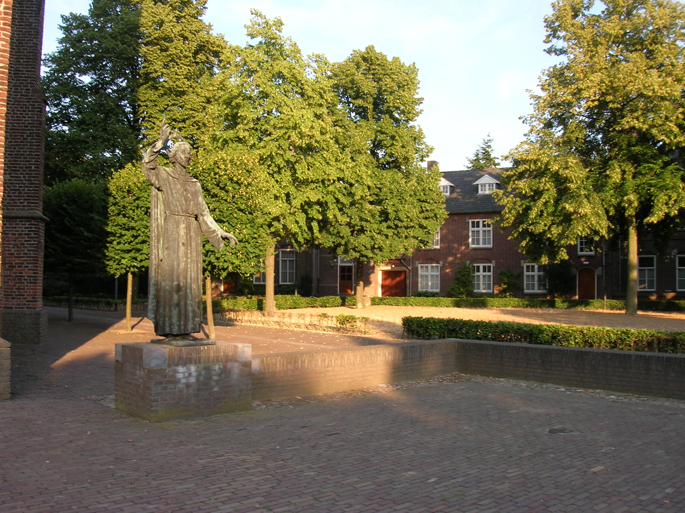 Sculpture Heilig Hart in Sint Anthonis/The Netherlands